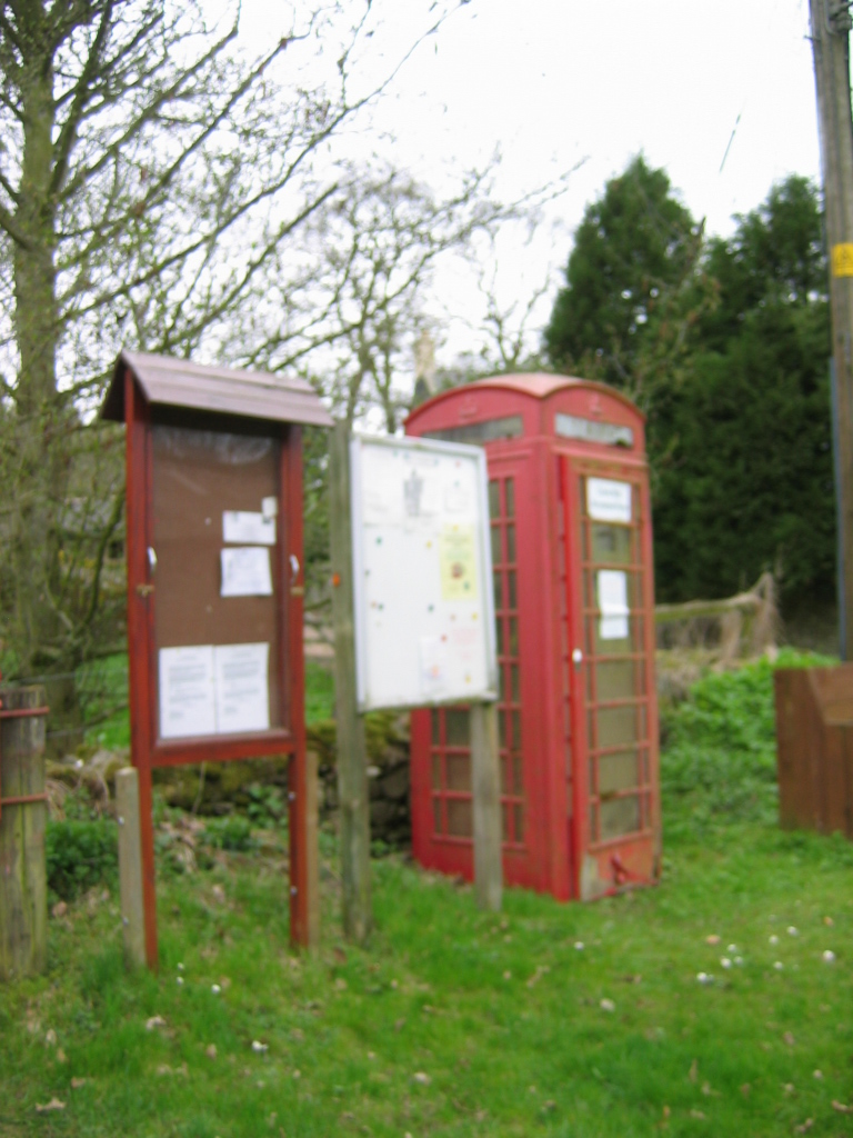 Abbey St. Bathans, Scottish Border